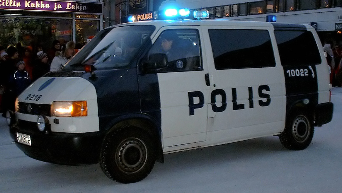 Finnish police van in Rovaniemi, Lapland, Finland (Since Finland has got two official languages, police cars are marked with both the Swedish word "polis" and Finnish "poliisi") — text by User:Vkem